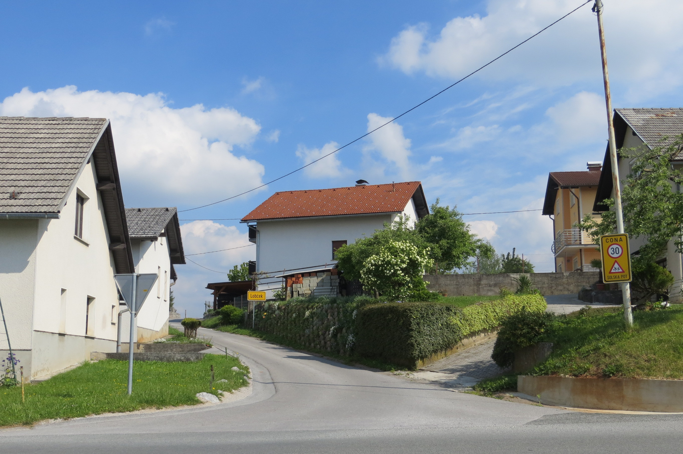 Lobček, Municipality of Grosuplje, Slovenia